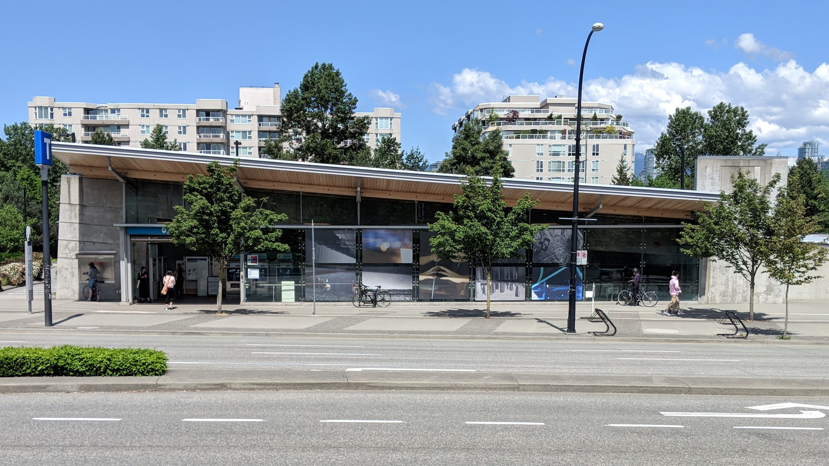 Olympic Village station entrance viewed from the southside of W. 2nd Avenue. May 2019.